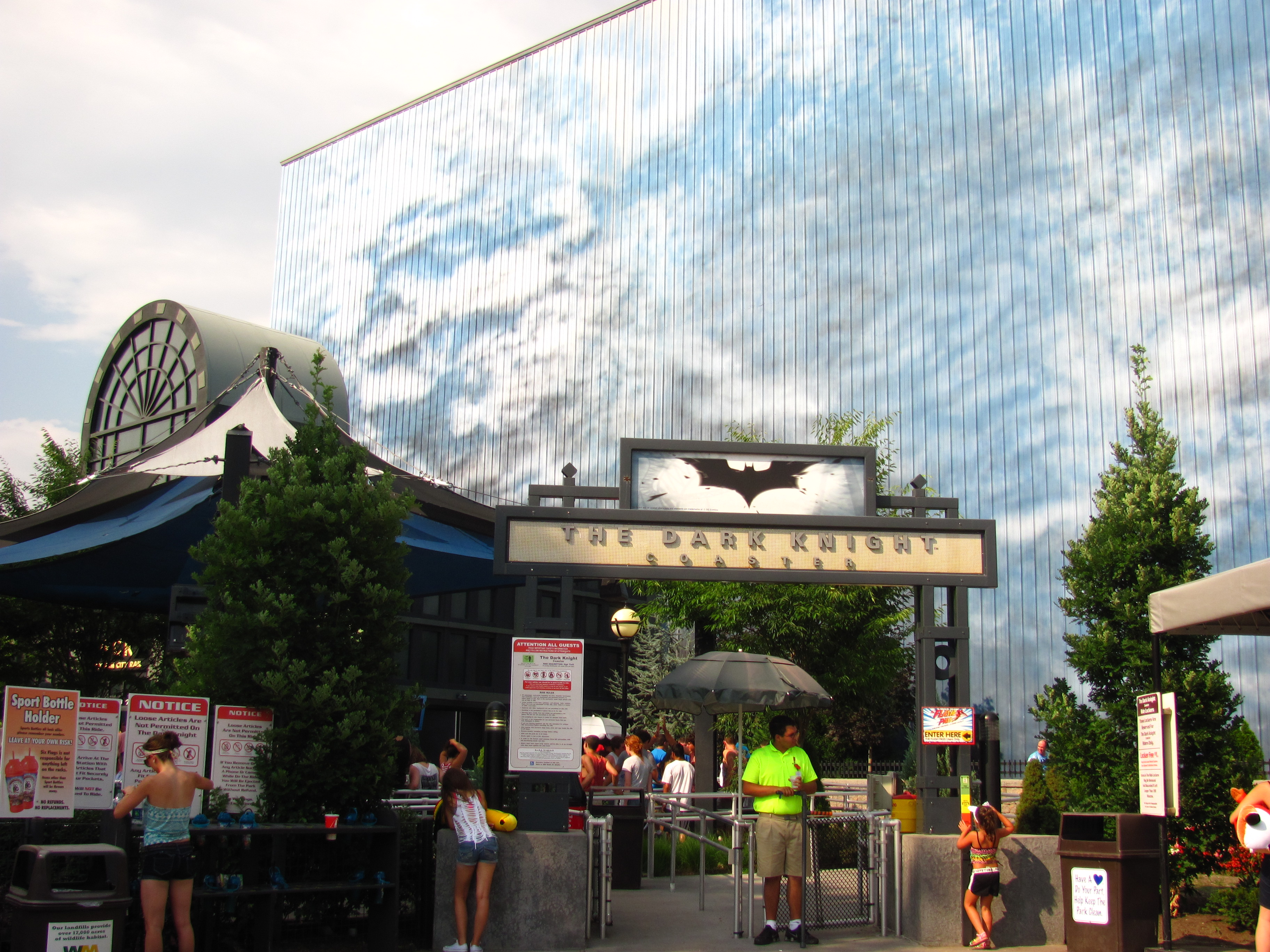 Six Flags Great Adventure 101